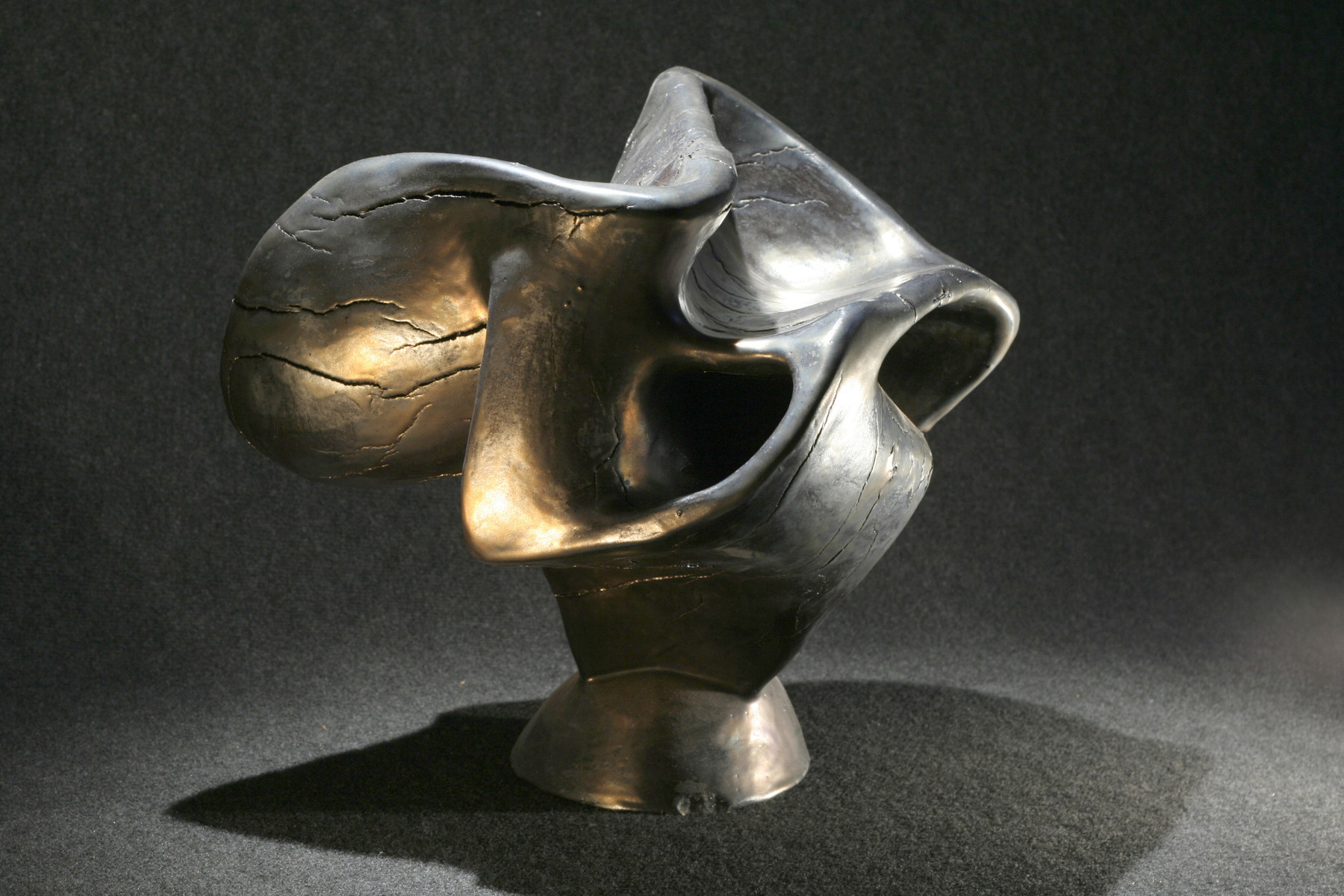 Sculpture